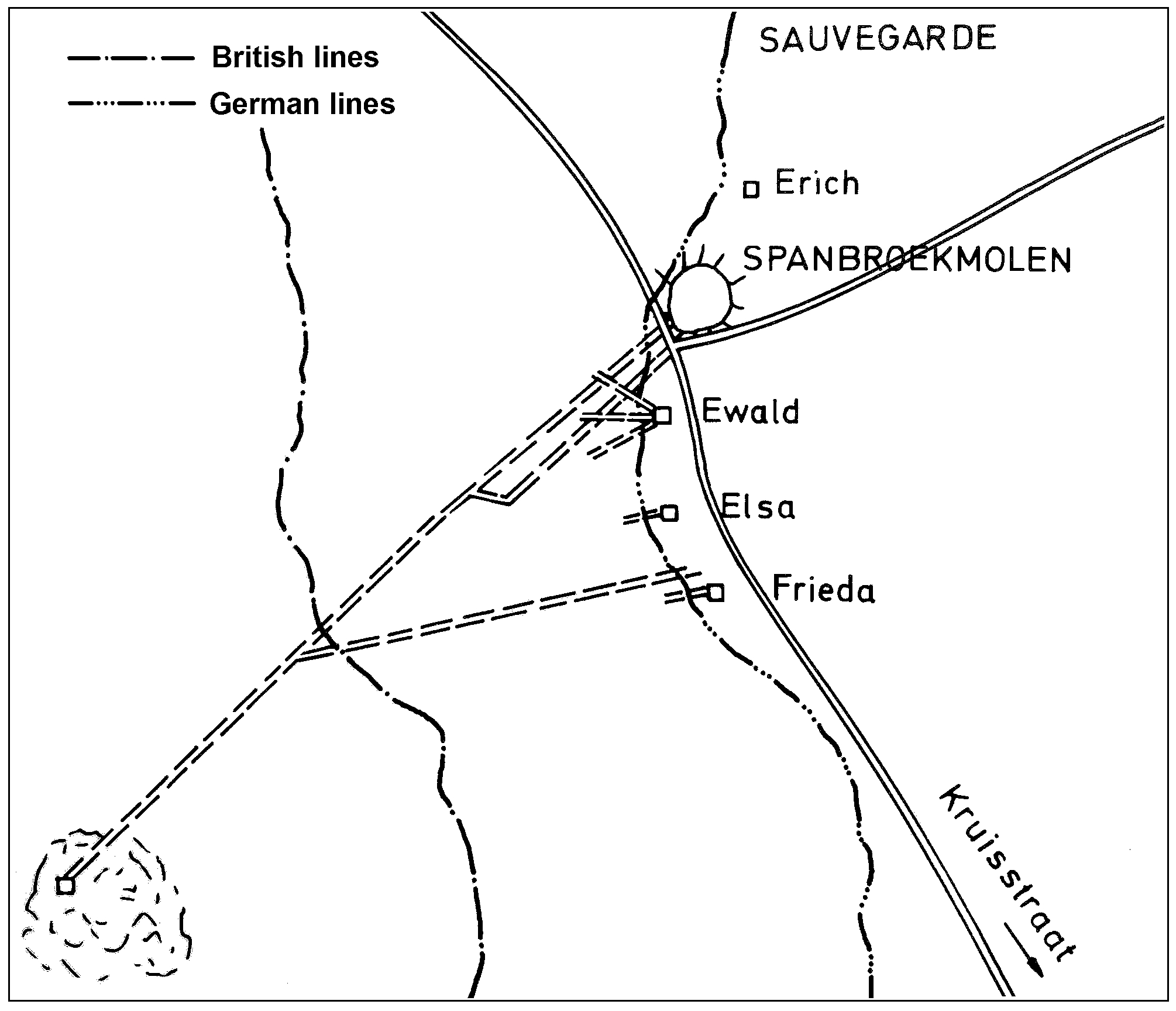 Plan of the mine at Spanbroekmolen, part of the mines placed by the tunnelling companies of the Royal Engineers in the Battle of Messines (1917). This drawing is based on the plans published in Roger Lampaert, De Mijnenoorlog in Vlaanderen 1914–1918, Roesbrugge/Belgium (Drukkerij Schoonaert) 1989. Placing this mine was severely obstructed by German counter mining. In February 1917 a German charge damaged the main tunnel, so the British dug a recovery gallery which after 357 metres (1,172 ft) cut into the original tunnel and allowed the Royal Engineers to rescue the mine. A long branch gallery for another mine at Spanbroekmolen was also started, but had to be abandoned in order to rescue the main tunnel.